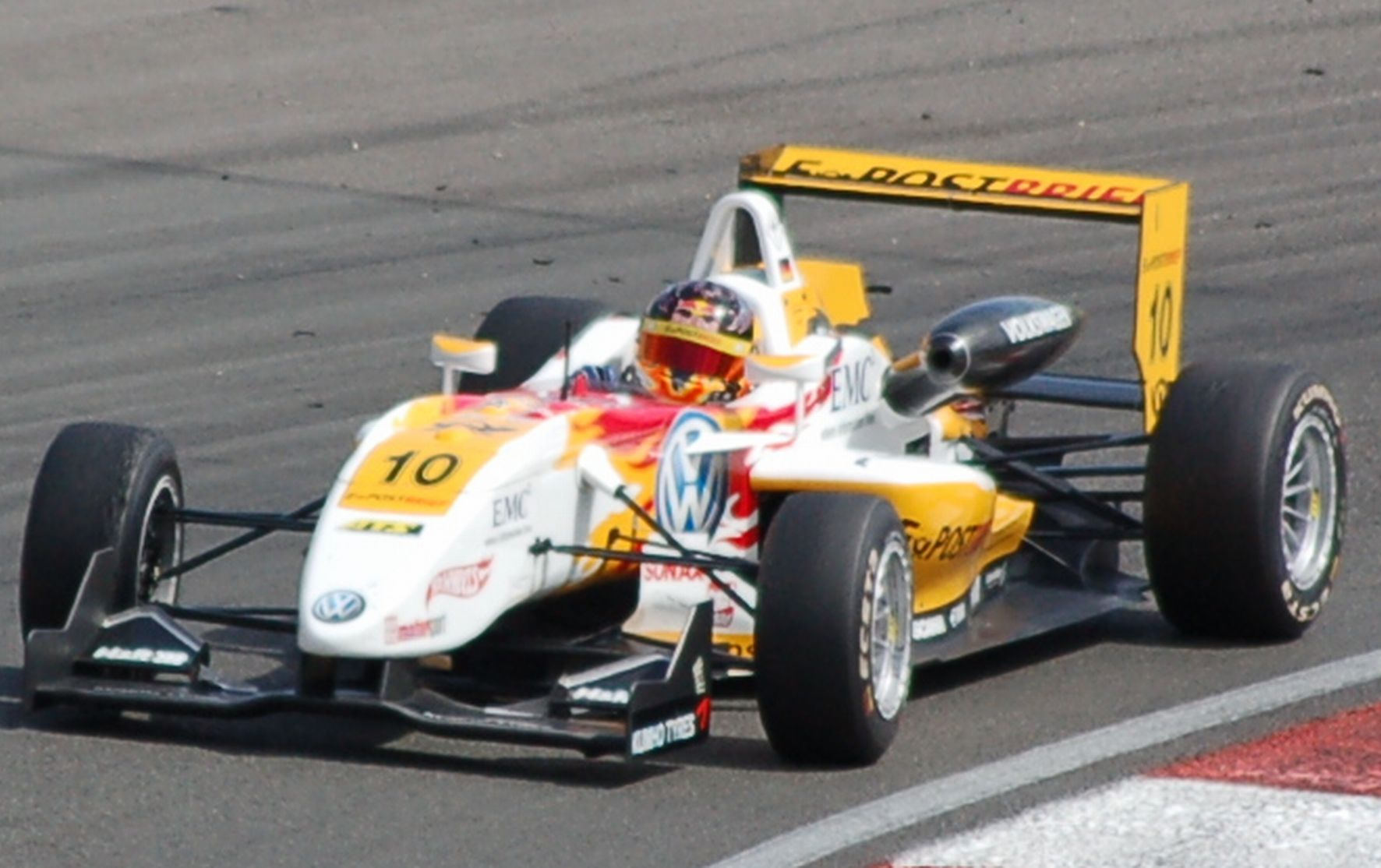 Daniel Abt in Zandvoort 2011